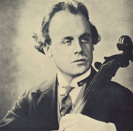 American cellist Paulo M. Gruppe (1891-1979)